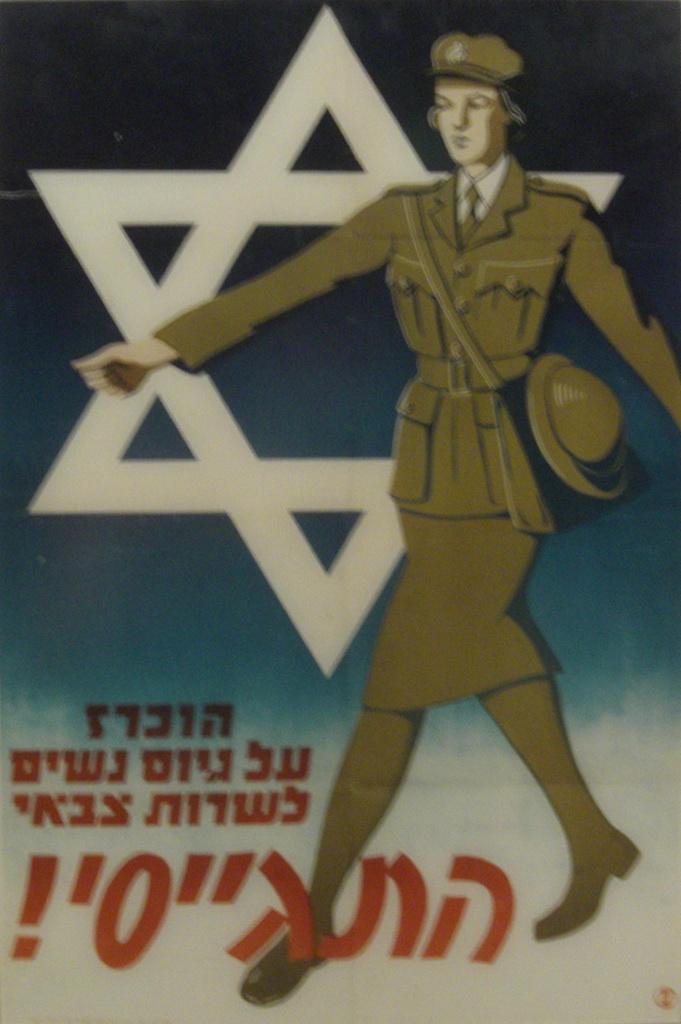 1 of 6 posters exhibited in the Hagannah Museum, Rothchild ave 23, Tel aviv